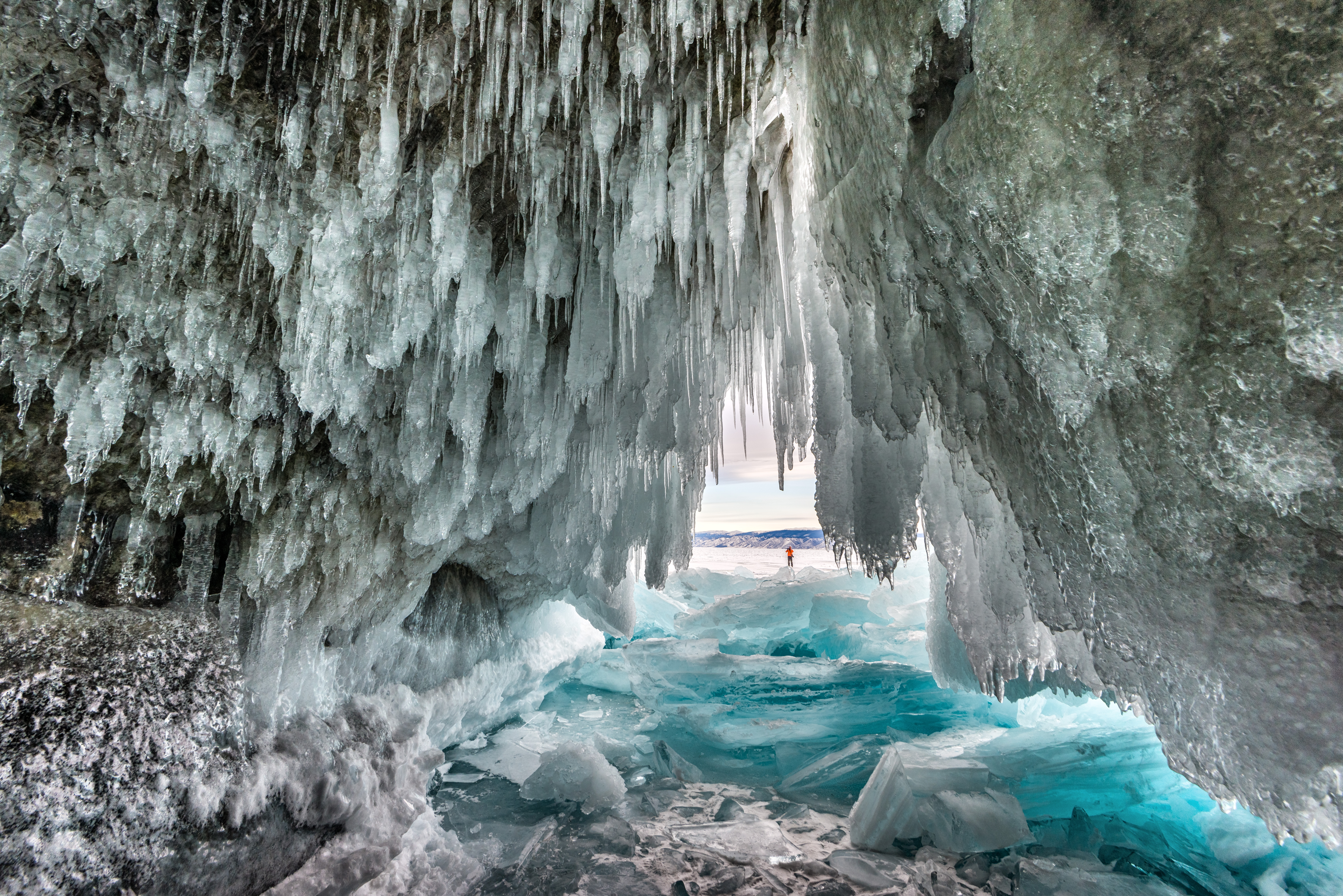 An ice cave on Olkhon Island, eastern Siberia, Russia